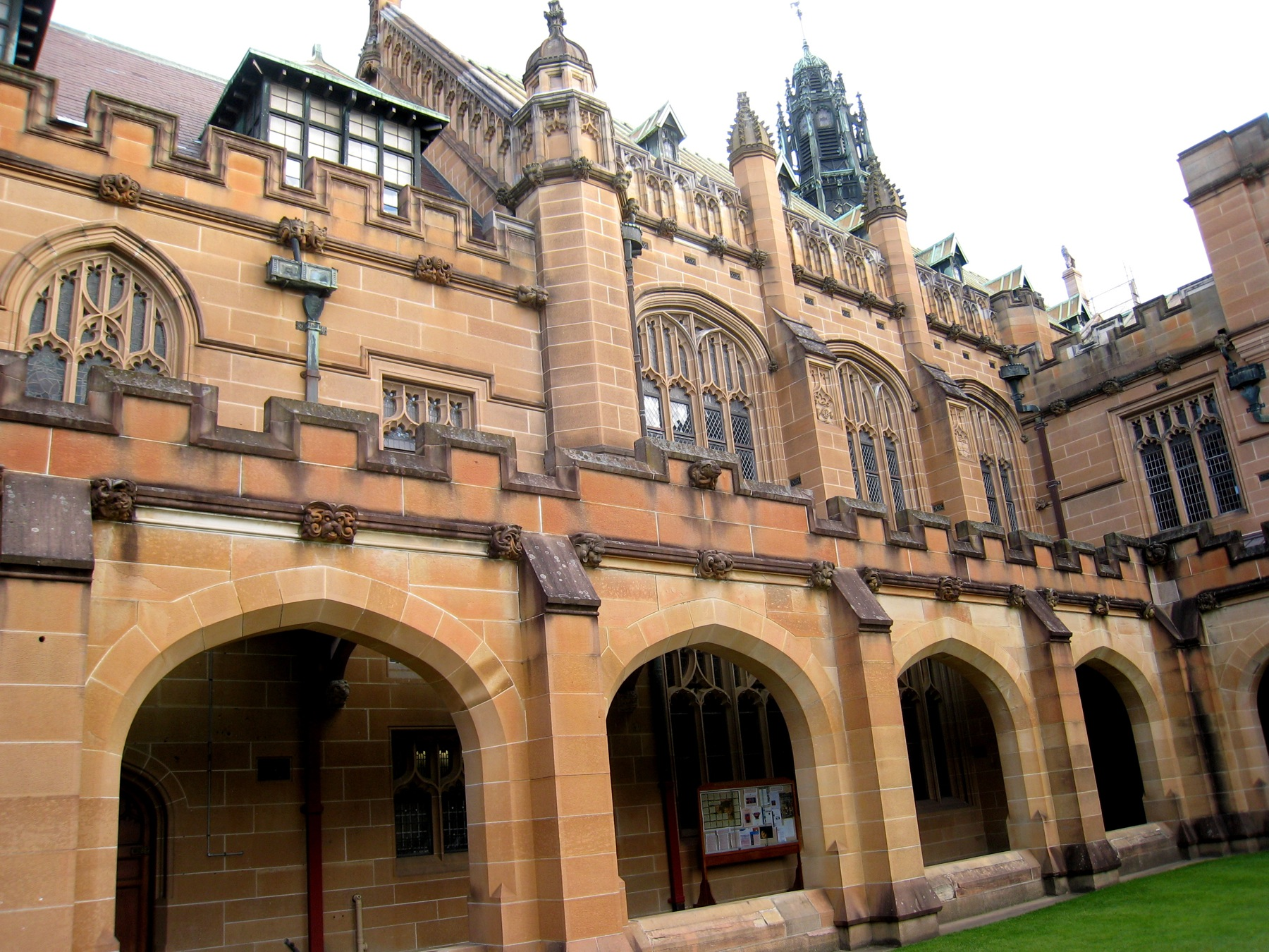 Australia July 2008